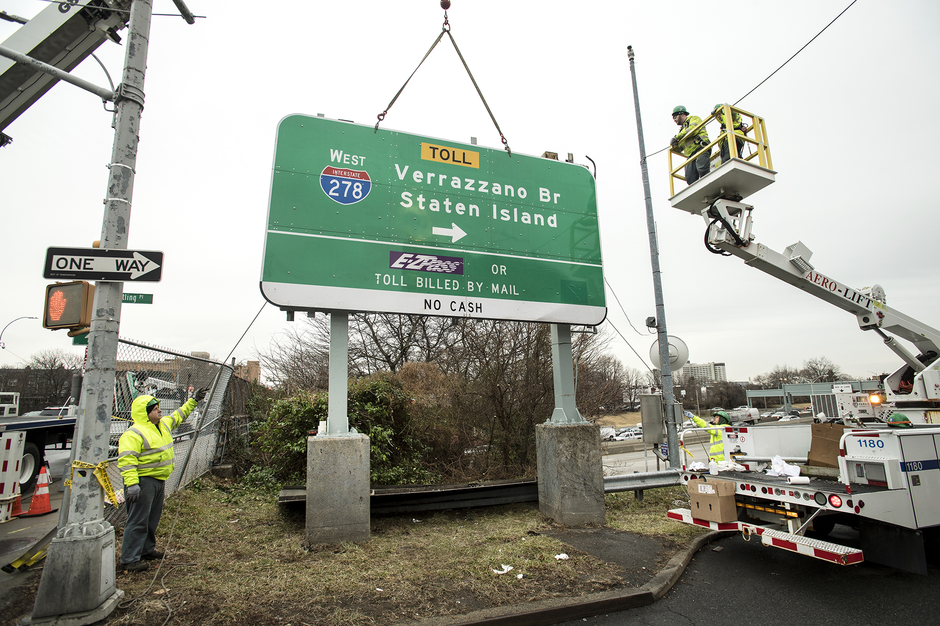 On Feb. 5, 2020, crews from MTA Bridges and Tunnels today replaced the first of 19 signs on agency property to feature the revised spelling of the bridge’s name, incorporating an additional ‘z’ in the name Verrazzano. Photo: Patrick Cashin/Metropolitan Transportation Authority